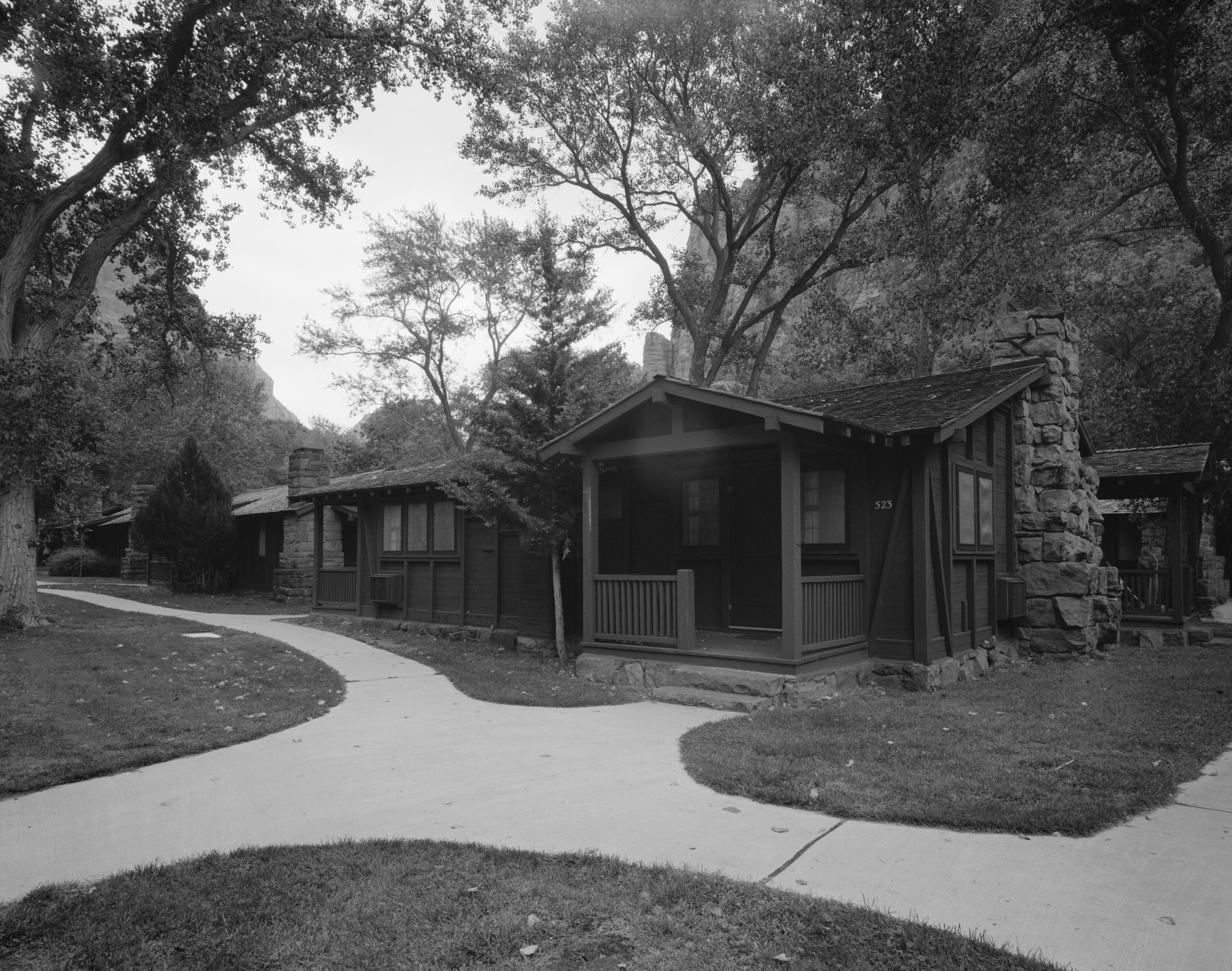 Front of Cabin 523 in the Zion Lodge Historic District, located west of State Route 9 in Zion National Park, near Springdale in Washington County, Utah, United States. Built in 1925, the district is listed on the National Register of Historic Places. Image courtesy of Historic American Buildings Survey—HABS.